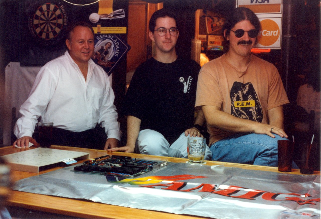 Left to right are Fred Fish, Jason Compton and Dave Haynie being recognized by the Amiga Atlanta Inc. User Group (circa 1995). Photo by Aaron Ruscetta, former AAi officer. In very fond remembrance of Fred Fish (with apologies for all the puns your name evoked): So long, and thanks for all the disks!